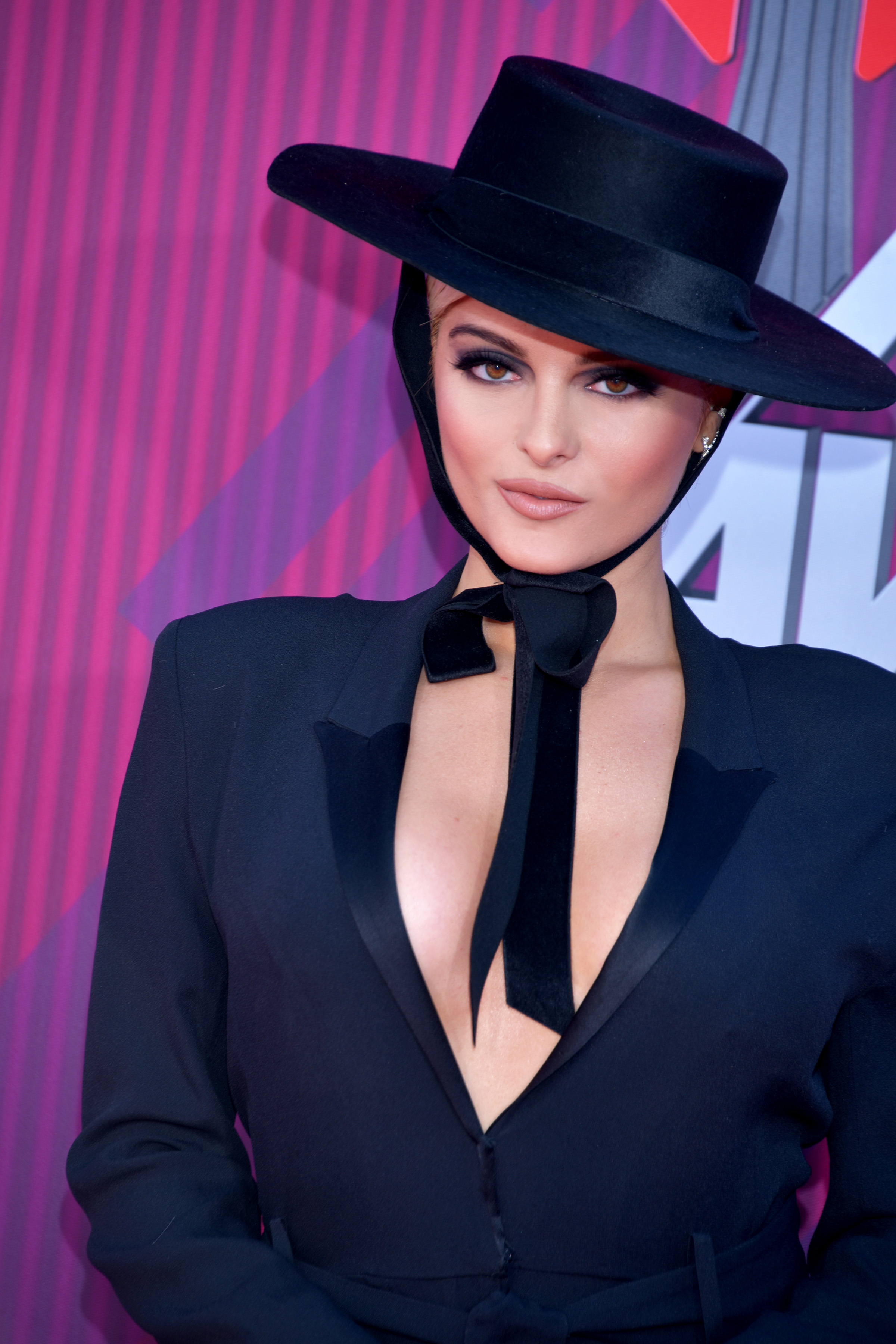 Bebe Rexha at the iHeartRadio Music Awards, Los Angeles, California on March 14, 2019 - Photo by Glenn Francis of